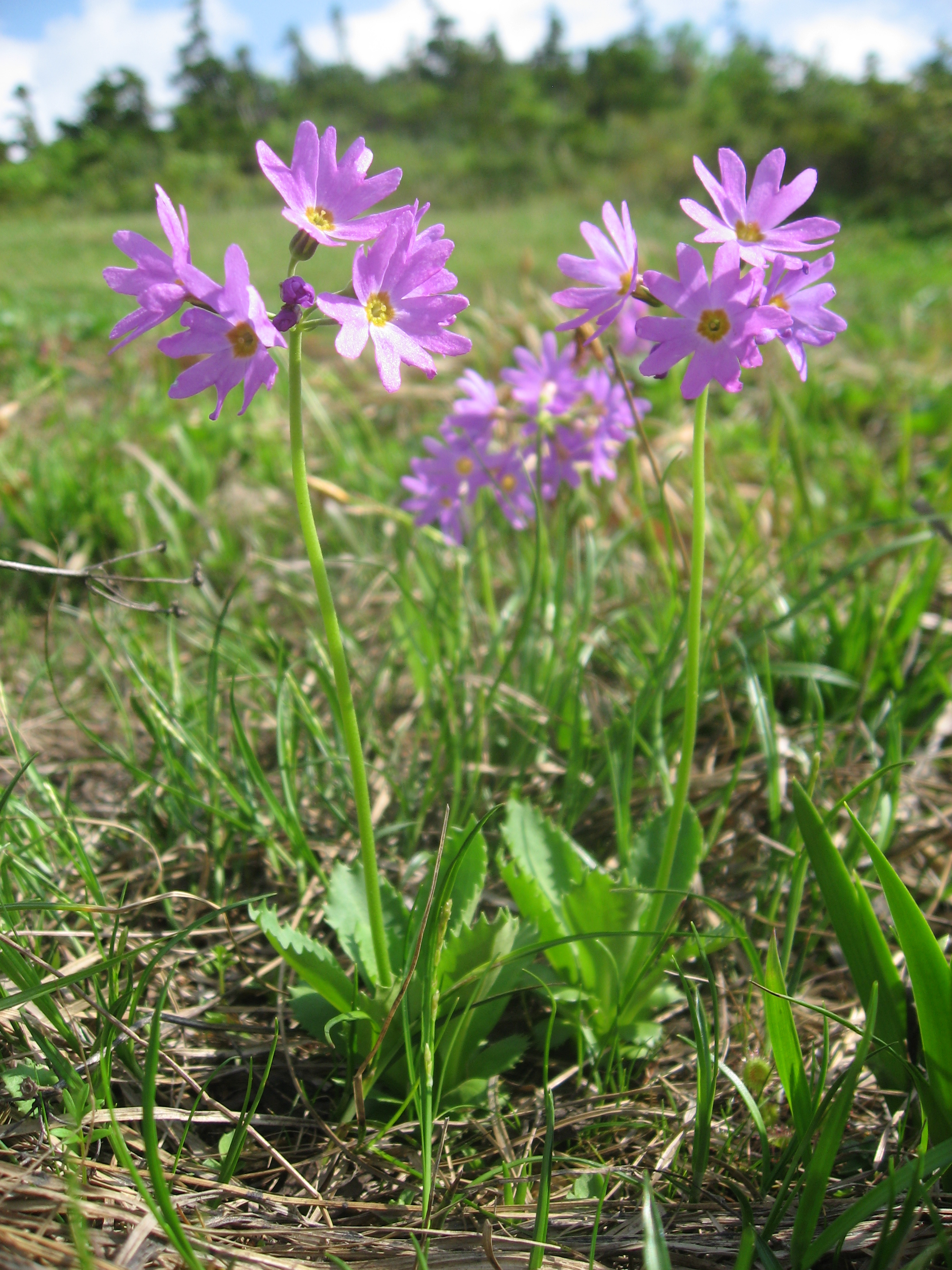 Primula cuneifolia var. hakusanensis